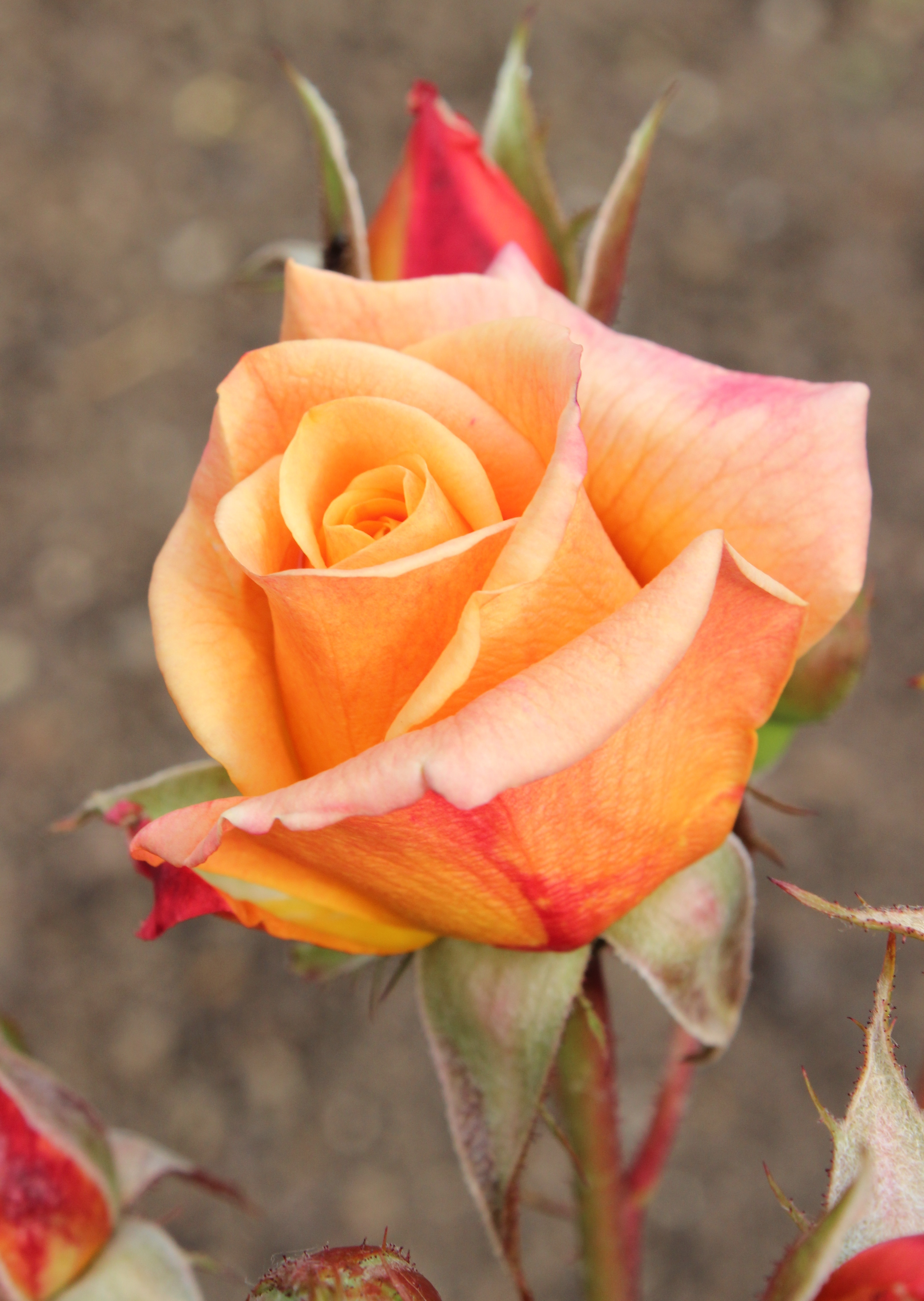 Rosa 'Circus' in the Rosarium Wettsteinpark in Vienna. Identified by sign.